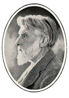 Robert Bridges, English poet.